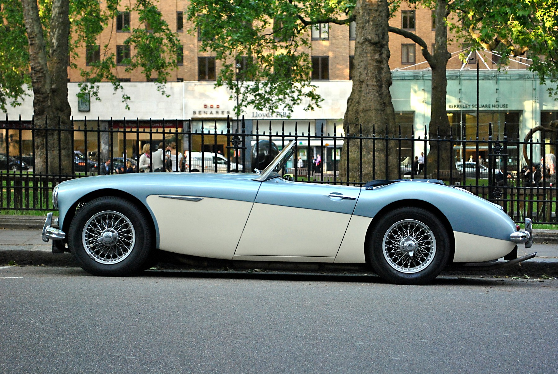 Austin-Healey 3000 Mk1 in London